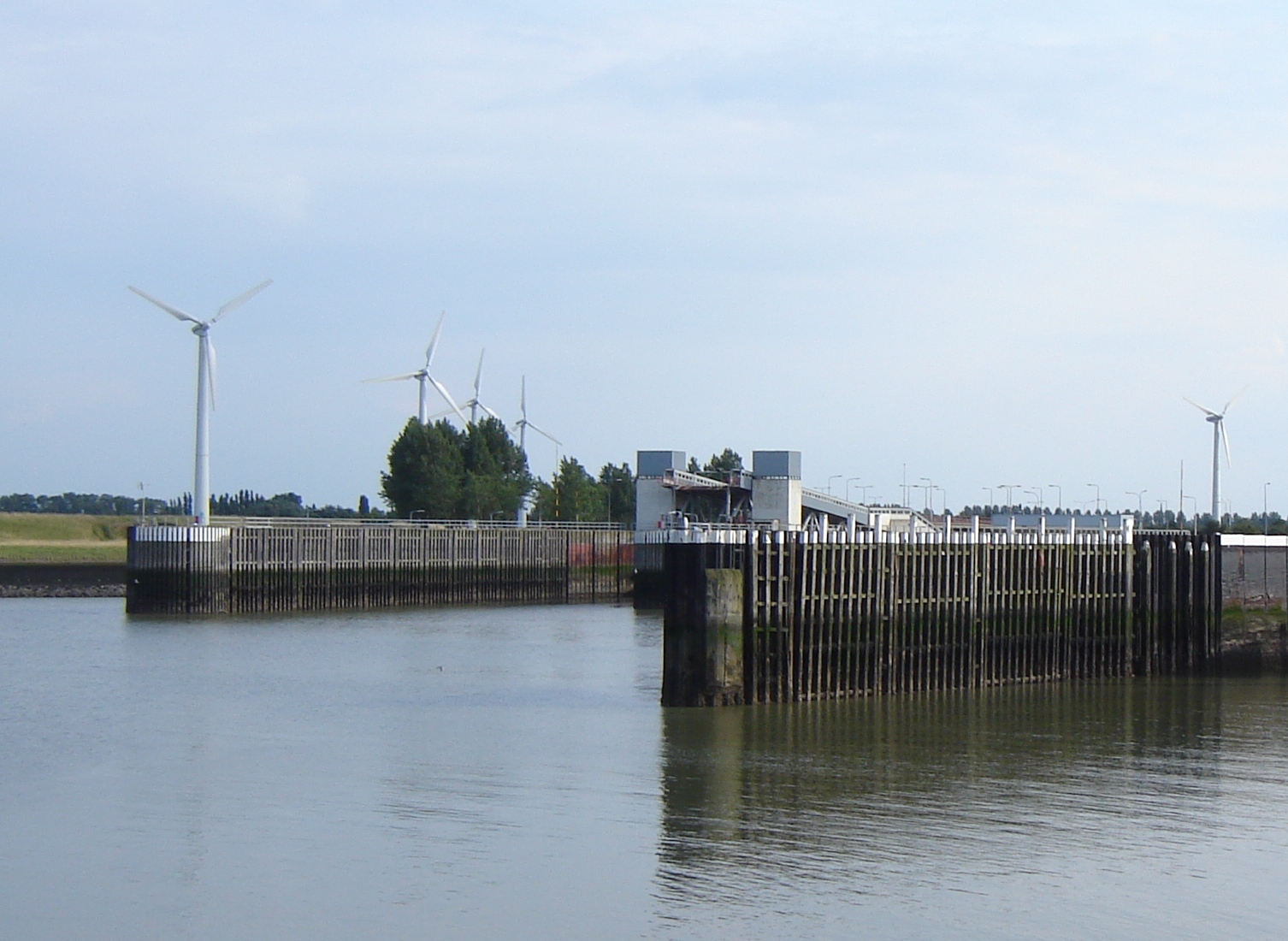 (Former) ferry port in Perkpolder, Hulst, Zeeland, Netherlands.